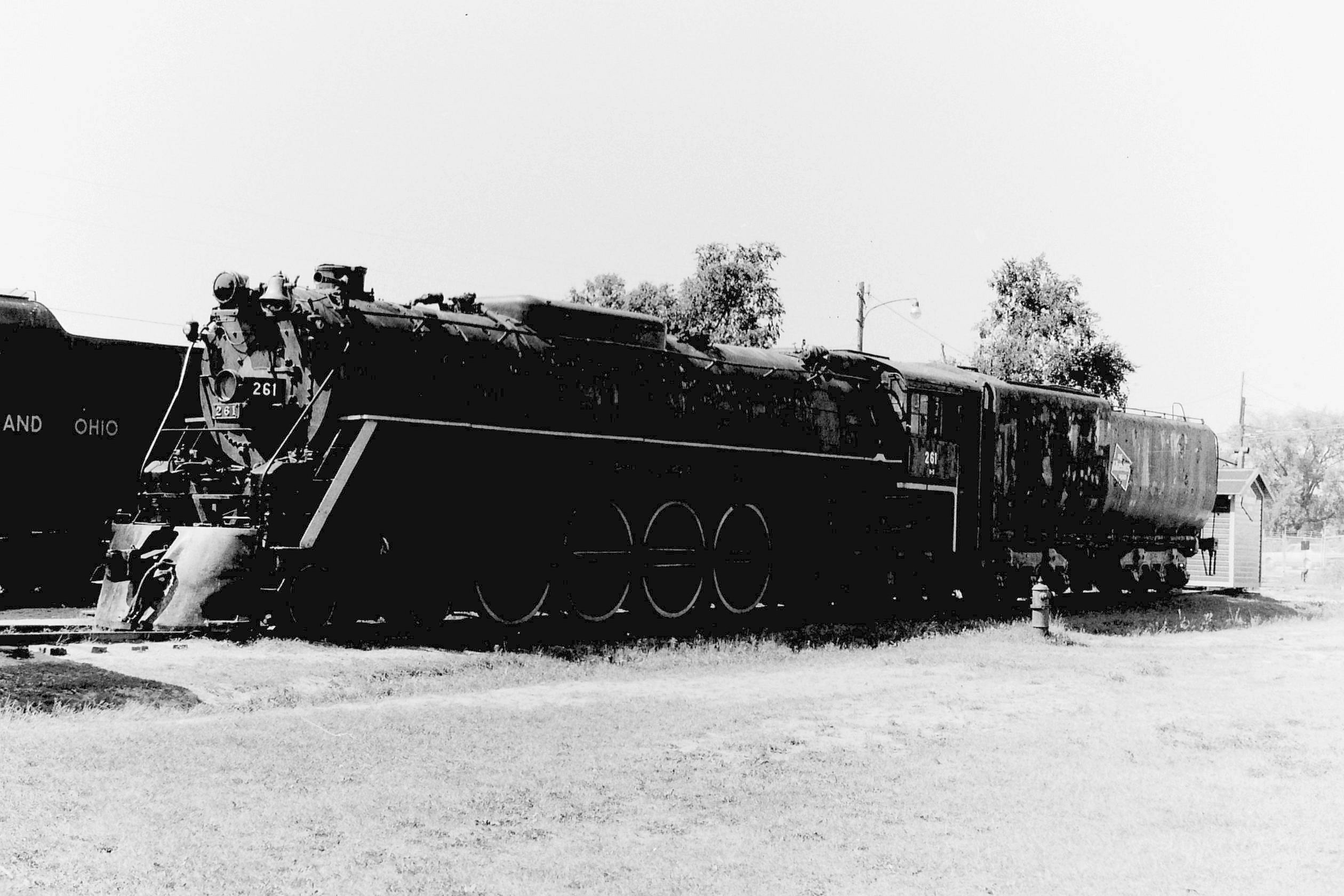 Chicago, Milwaukee, St.Paul & Pacific RR ("The Milwaukee Road") "S-3" Class 4-8-4 No.261 built by ALCO in 1943 at Green Bay Railroad Museum, 8/70. 52 "S" Class were built:2 S1 in 1930/38built by Baldwin and the Milwaukee's own shops; 40 S2's by Baldwin in 1937-40 and 10 S3's by ALCO in 1944. They were withdrawn 1954-56.